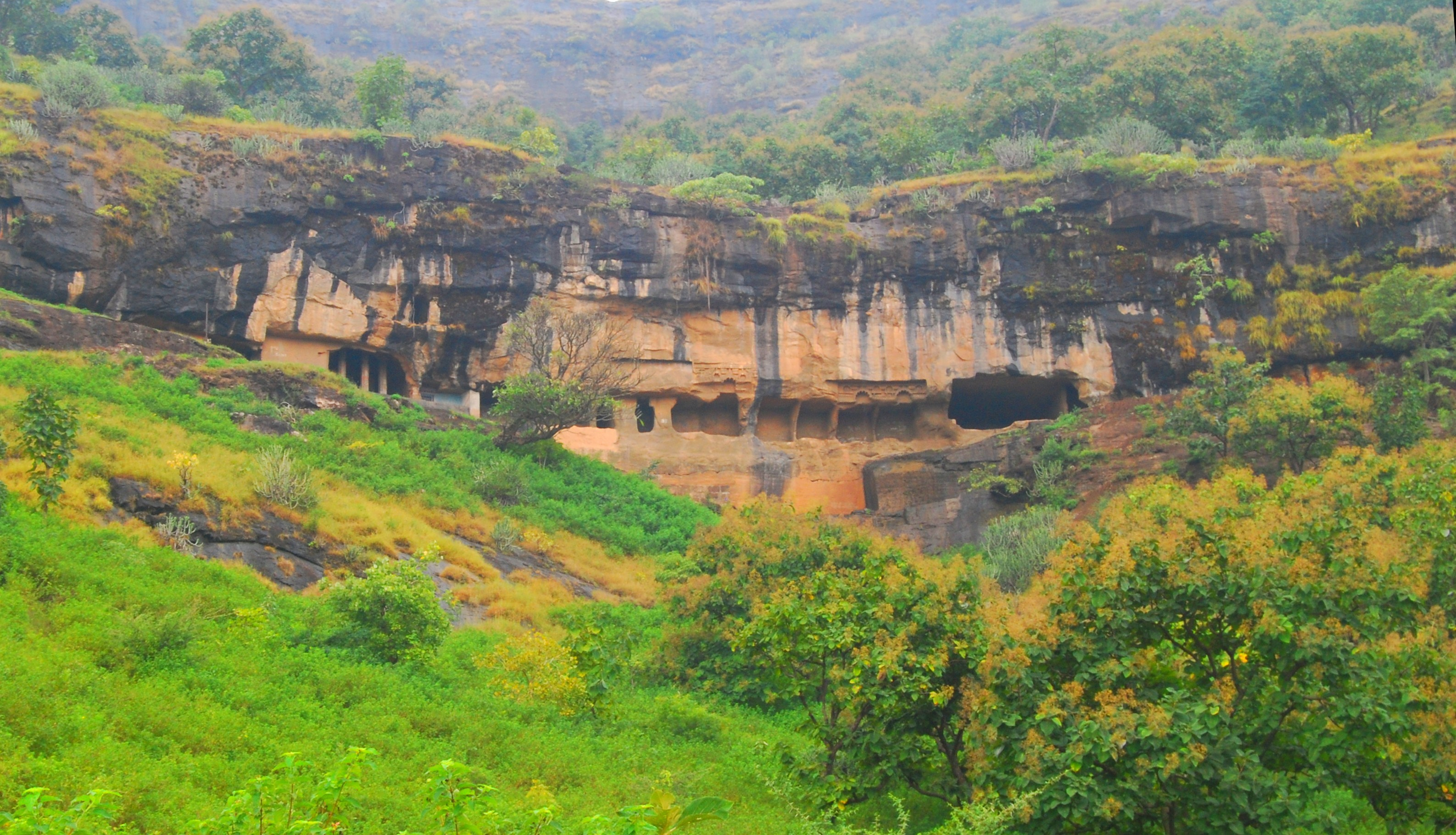 Tulja Caves from distant/below